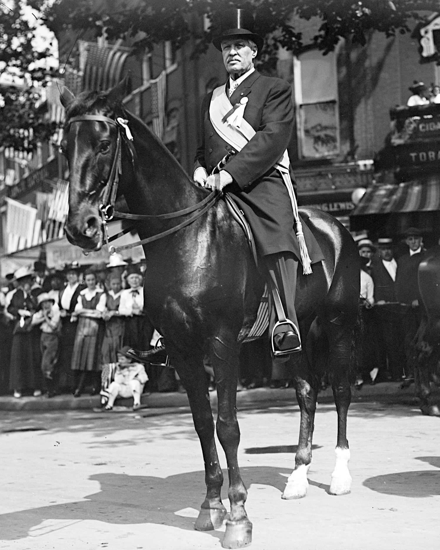 Jeremiah Donovan, US Representative from Connecticut